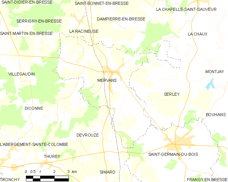 Map of French municipality